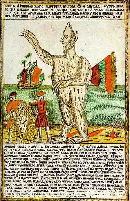 Russian lubok describing a strange aquatic humanoid caught in Spain.